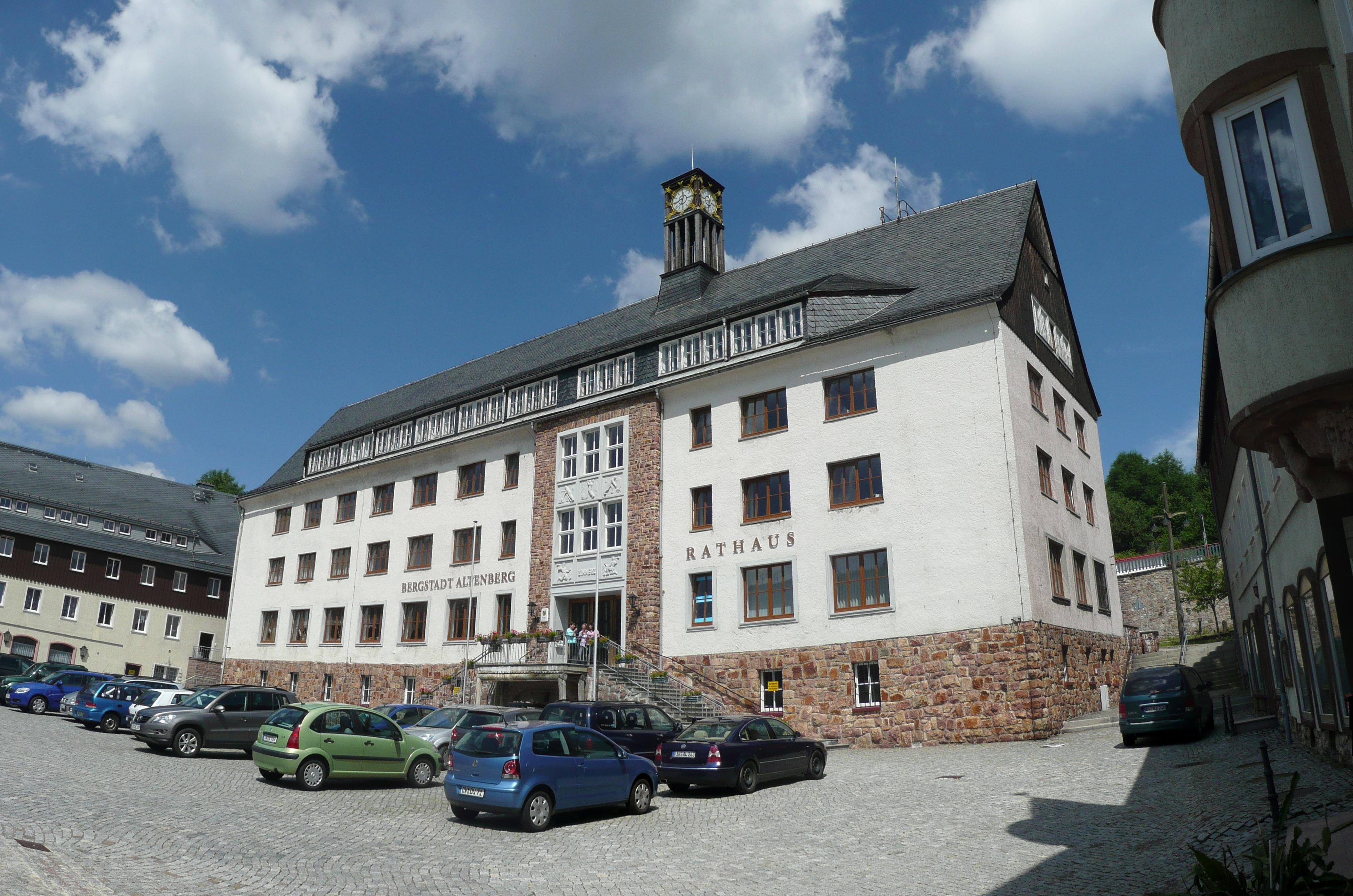 The townhall in Altenberg.